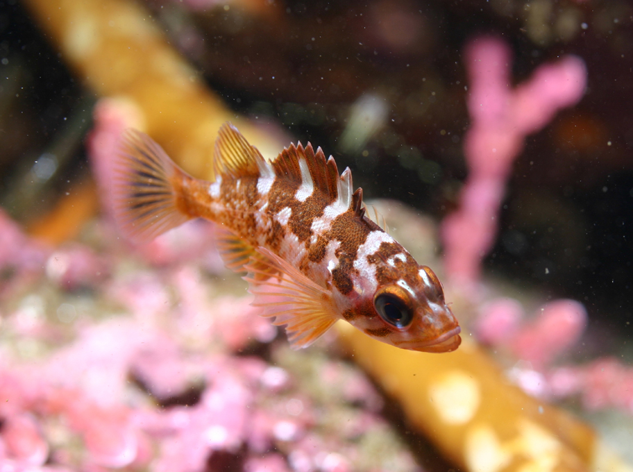 Juvenile gopher rockfish (Sebastes carnatus) like this one are often preyed upon by adult rockfish and lingcod.